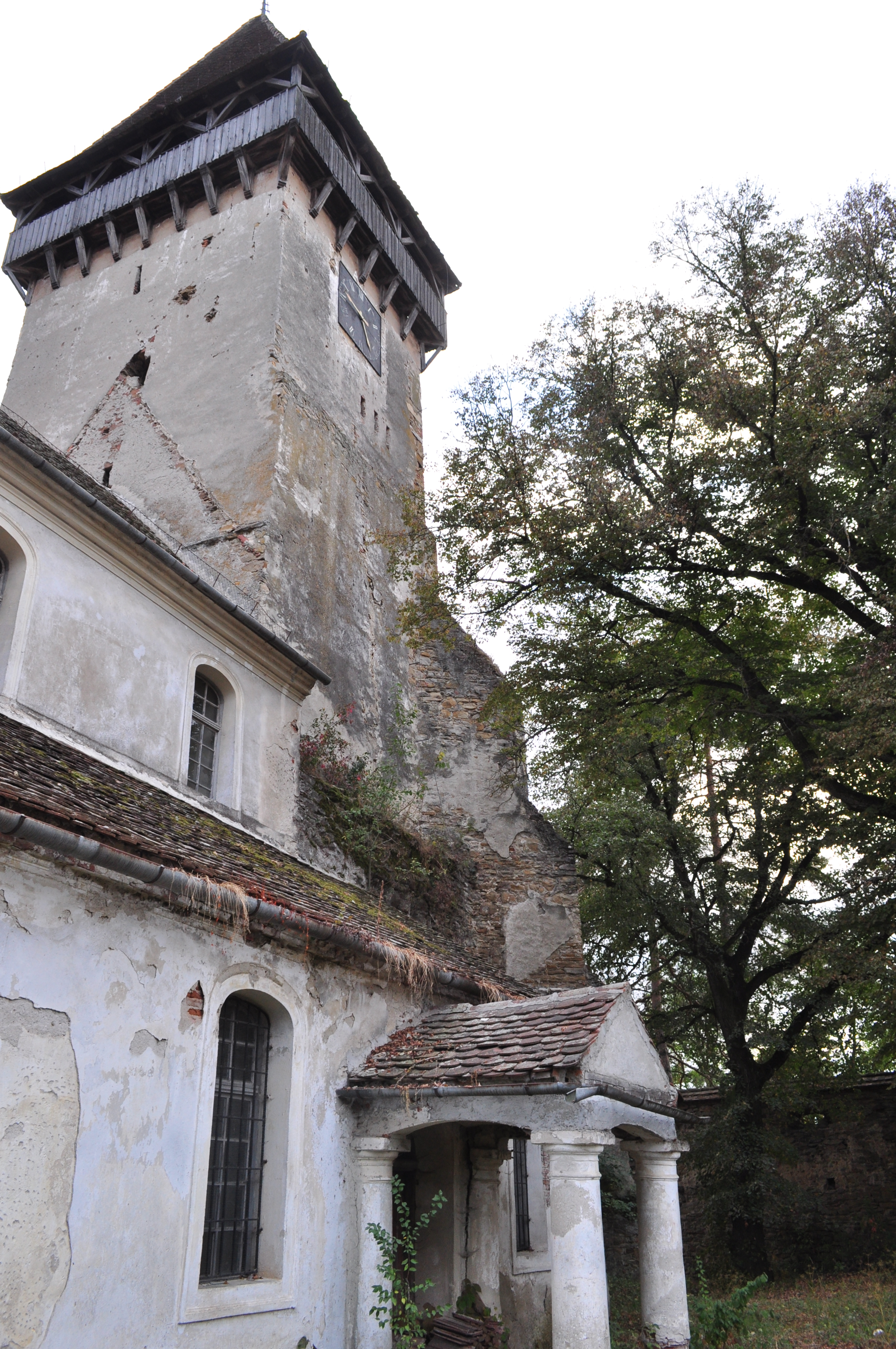 Saxon fortified church in Chirpăr, Sibiu county